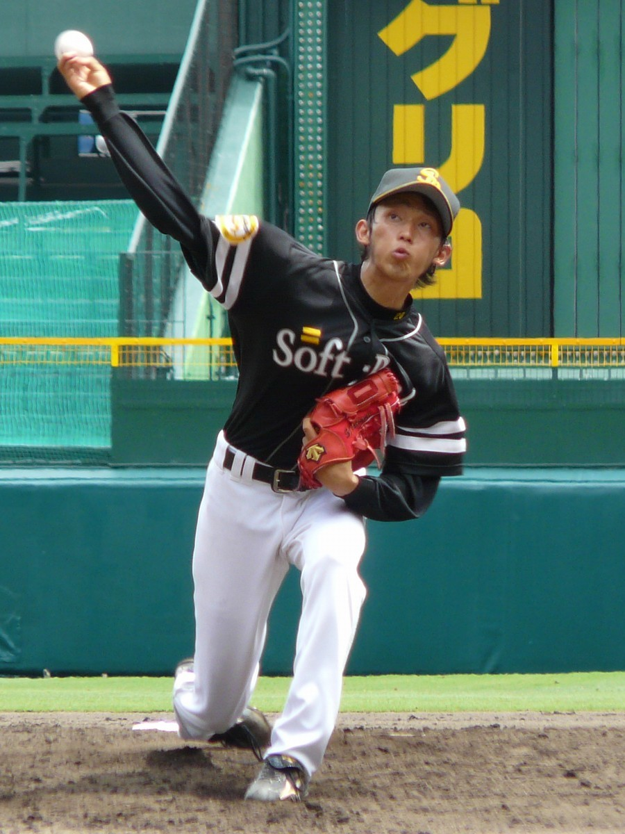 Shingo Tatsumi, pitcher of the Fukuoka SoftBank Hawks, at Hanshin Koshien Stadium.